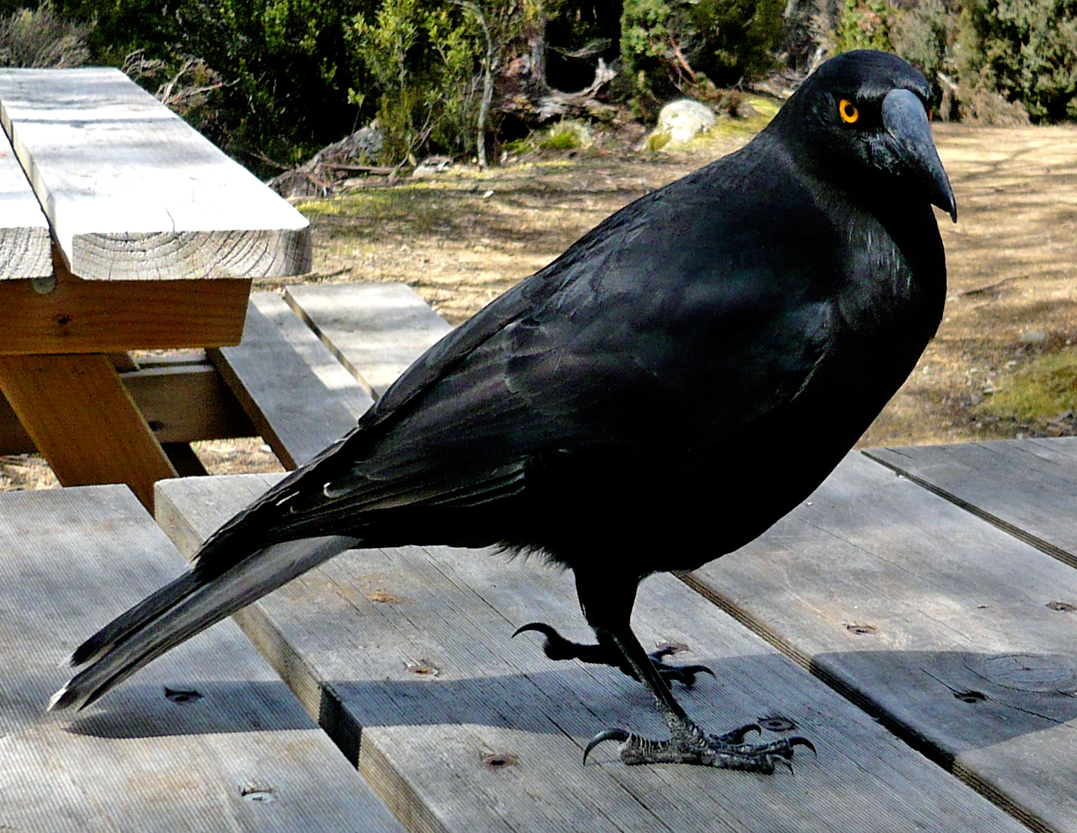 Tasmanian raven. Mount Field National Park, Tasmania, Australia